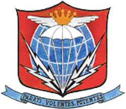 Emblem of the 436th Troop Carrier Wing (approved 20 June 1957)